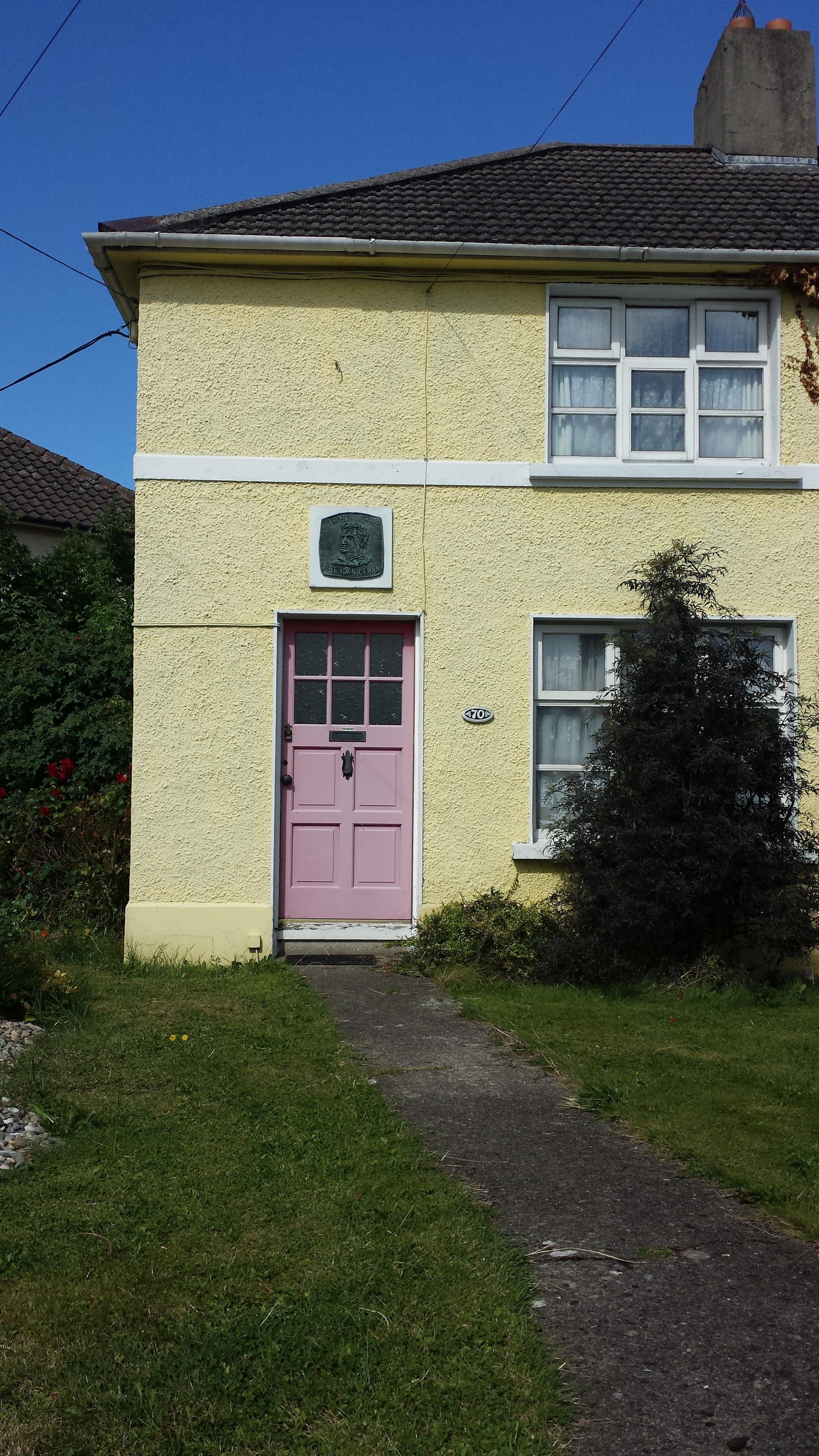 1923-1964 Brendan Behan